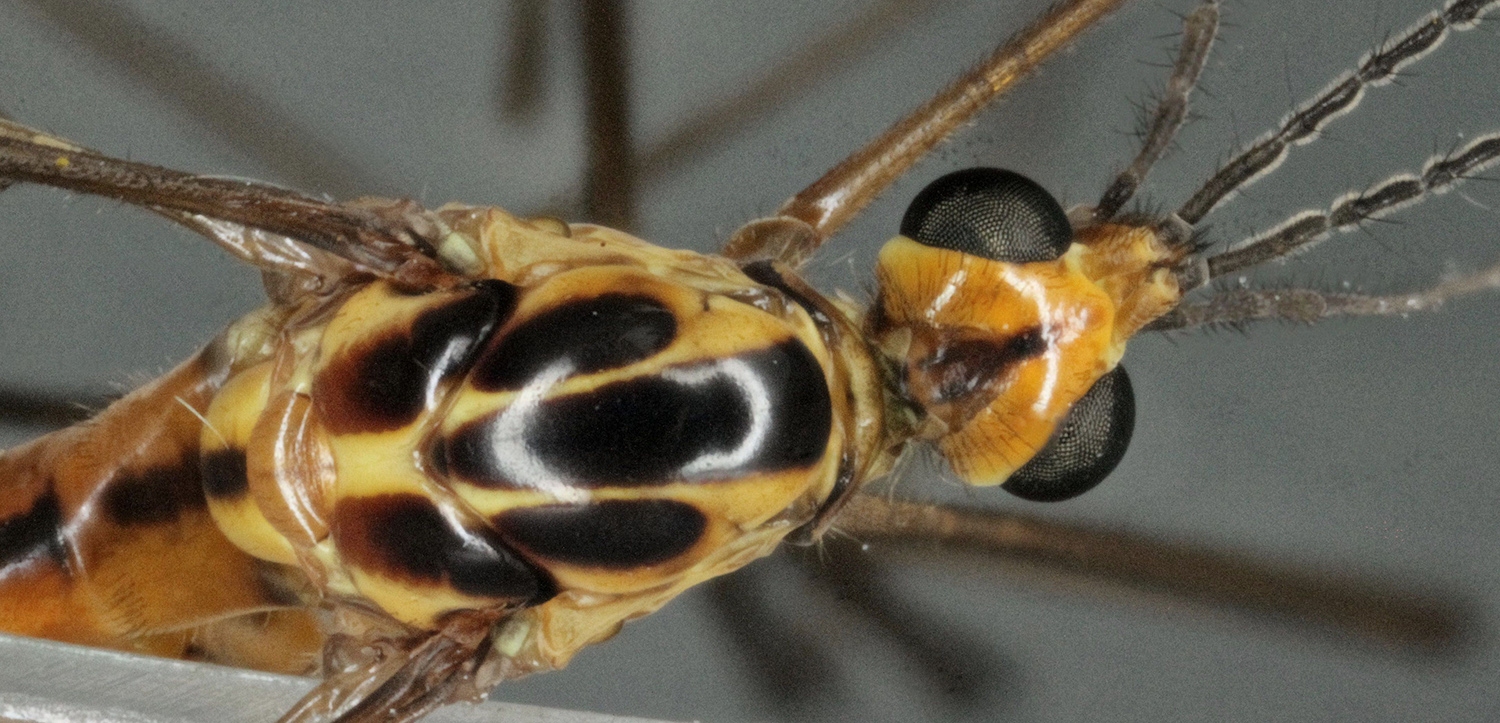 Nephrotoma scurra, Newborough Warren, North Wales, Aug 2014 2